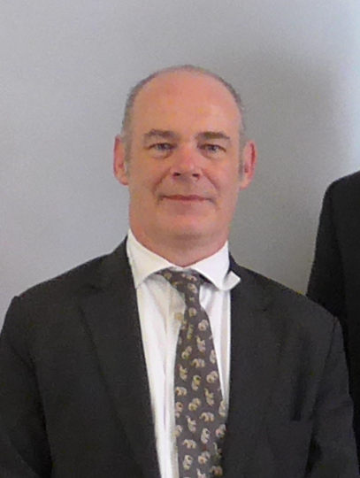 Speakers at the Thailand Update Conference, May 2, 2015, Columbia University.